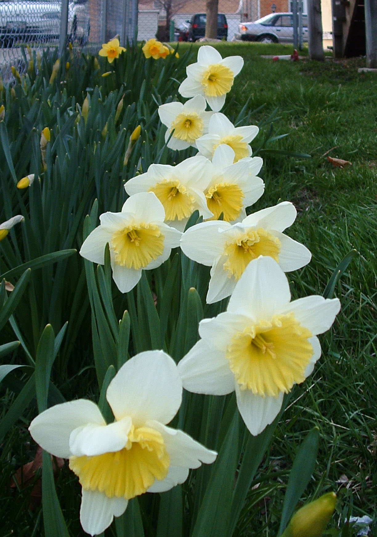 Narcissus 'Ice Follies'. Photographed by Kelly Martin in Niles, Illinois on April 9, 2004.